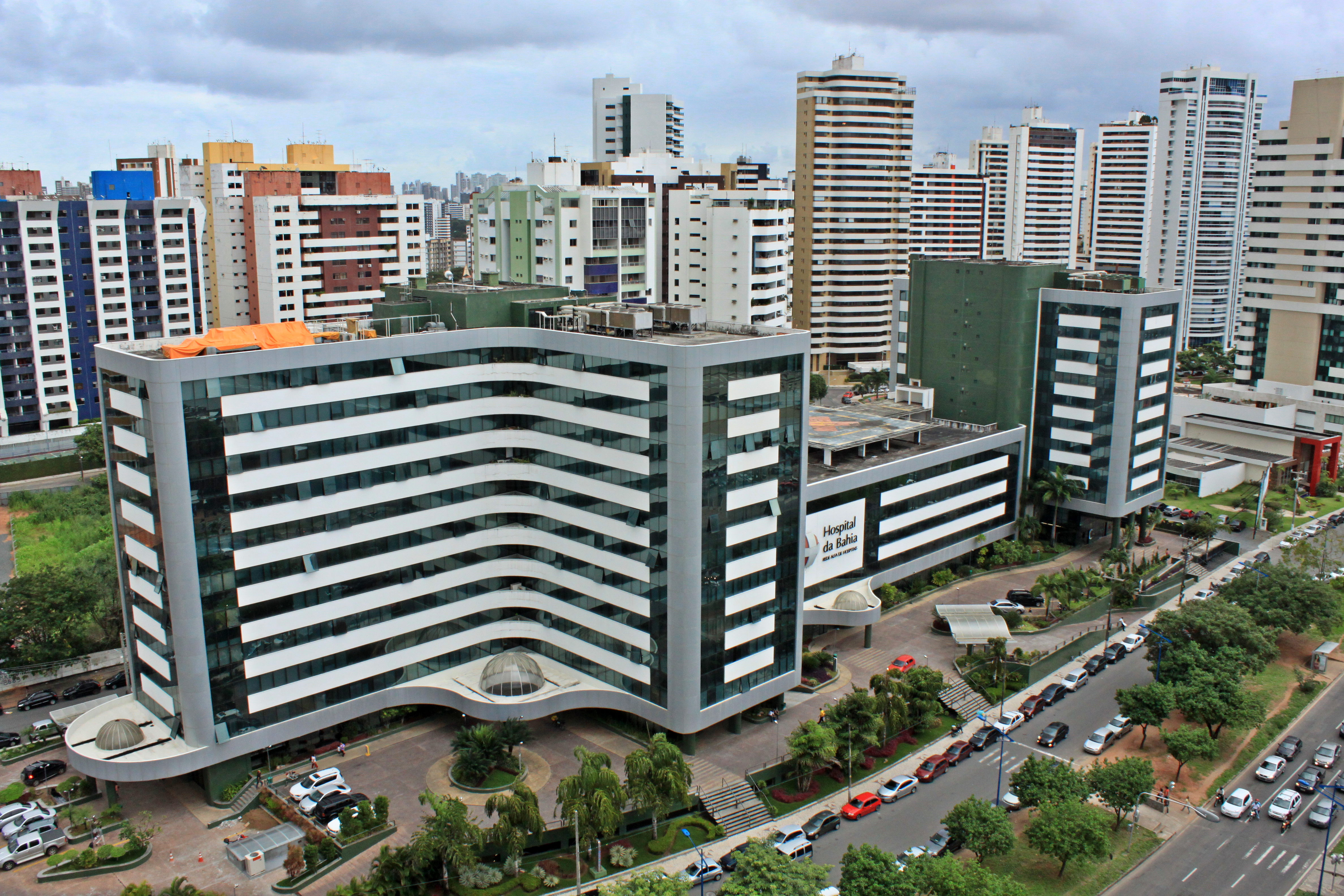 Hospital of Bahia, Salvador, Bahia, Brazil.